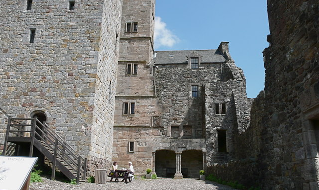 Courtyard of Castle Campbell, Dollar, Clackmannan There is a tea room through the arches at the end of the courtyard.